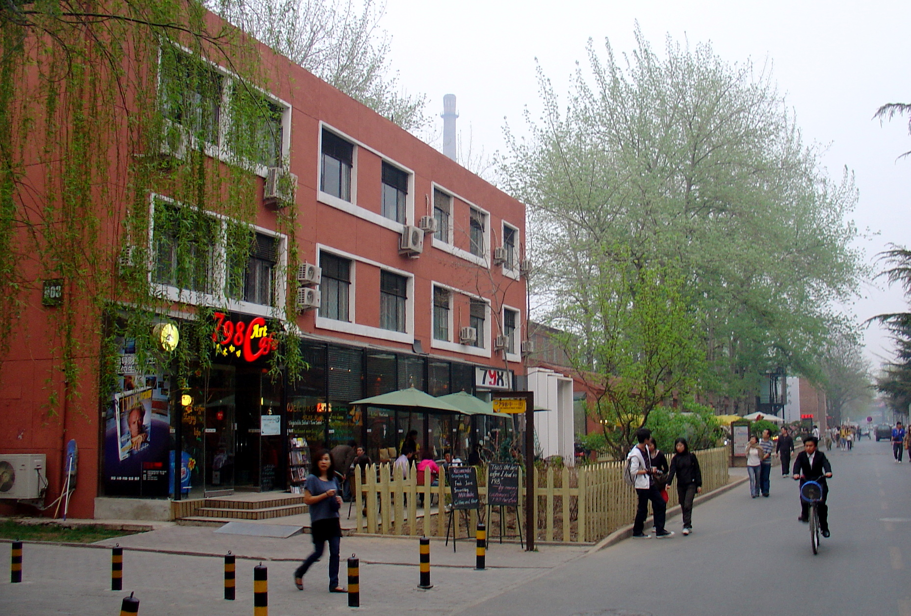 Patrons stroll through the 798 Art Zone, Beijing, late on a Sunday evening in April 2009.